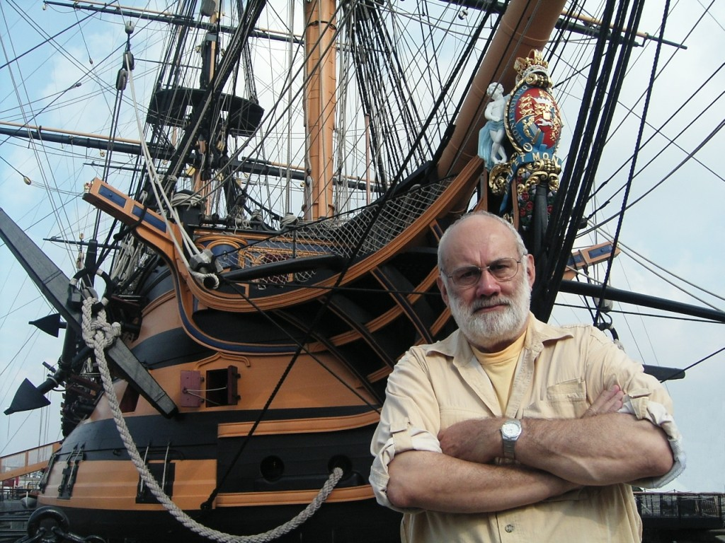 Personal photo of Julian Stockwin